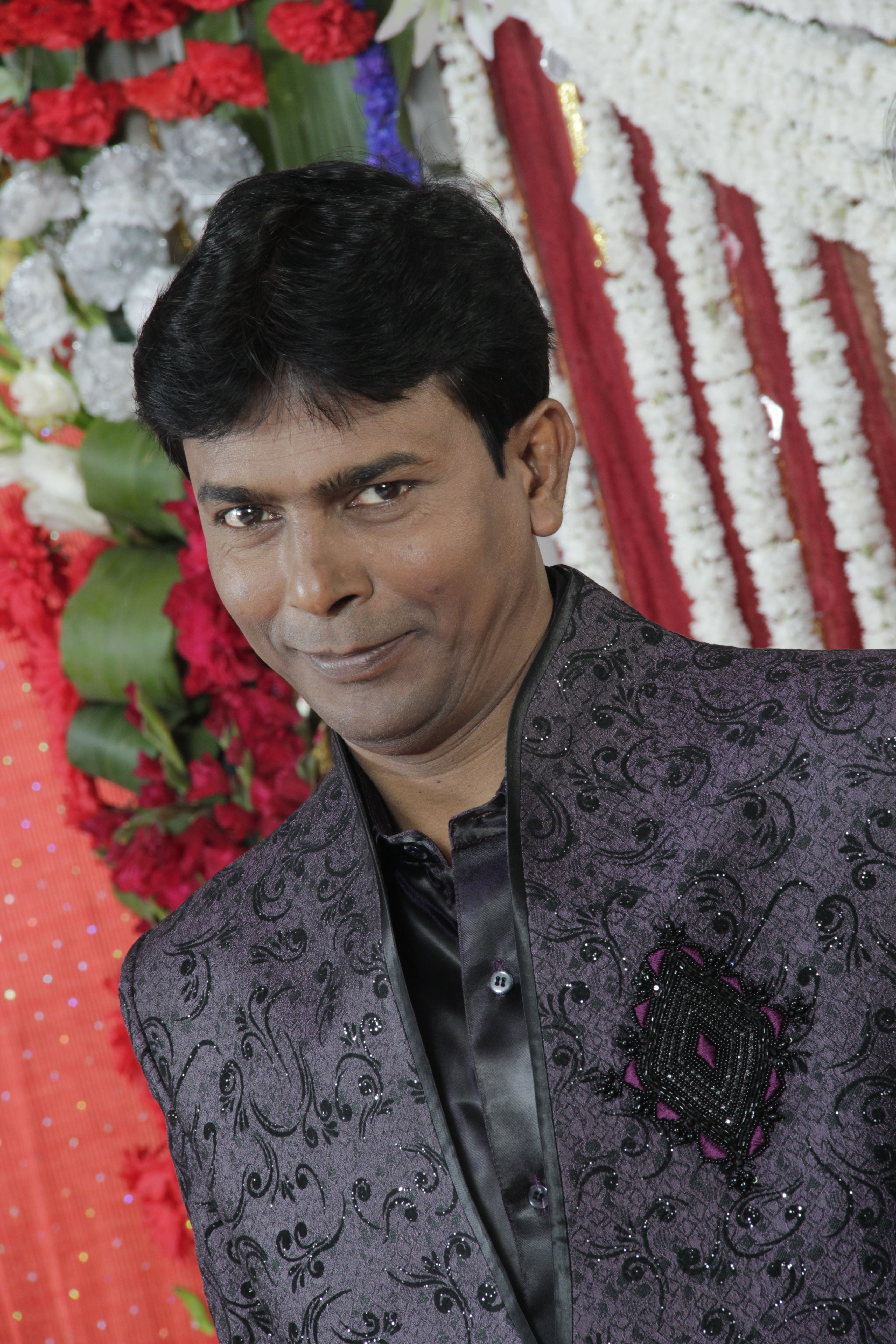 photo